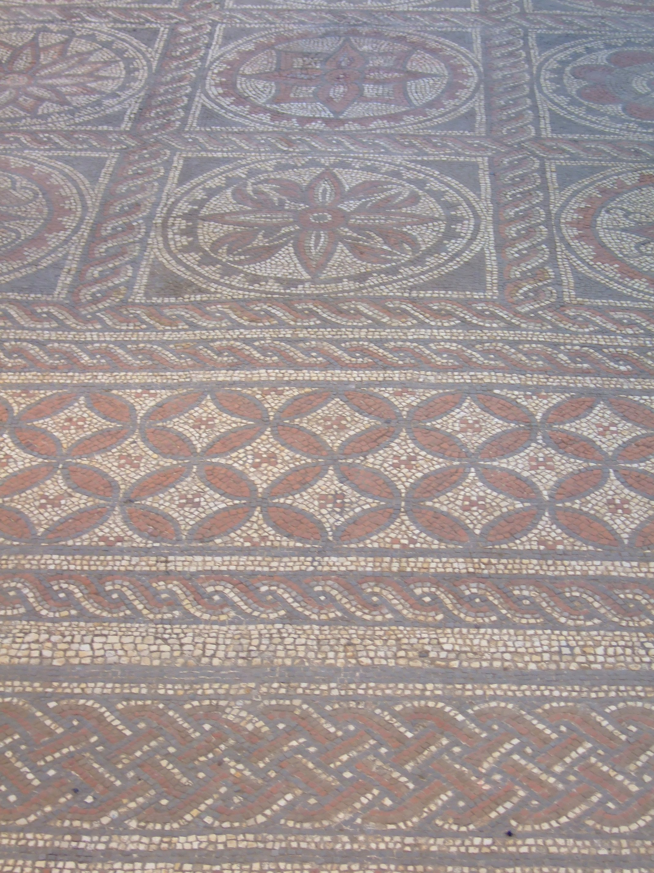 Still in place after nearly 1,700 years - and protected from the elements in a modernist building